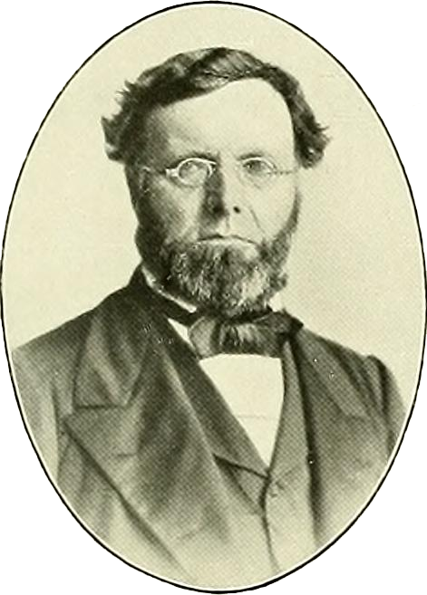 Portrait of the botanist Carl Heinrich Schultz-Bipontinus